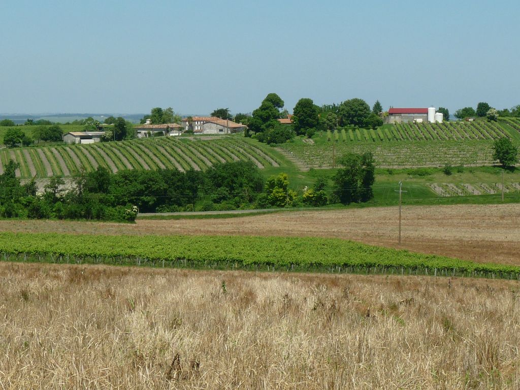 old roman way Périgueux-Pons at Birac, Charente, France